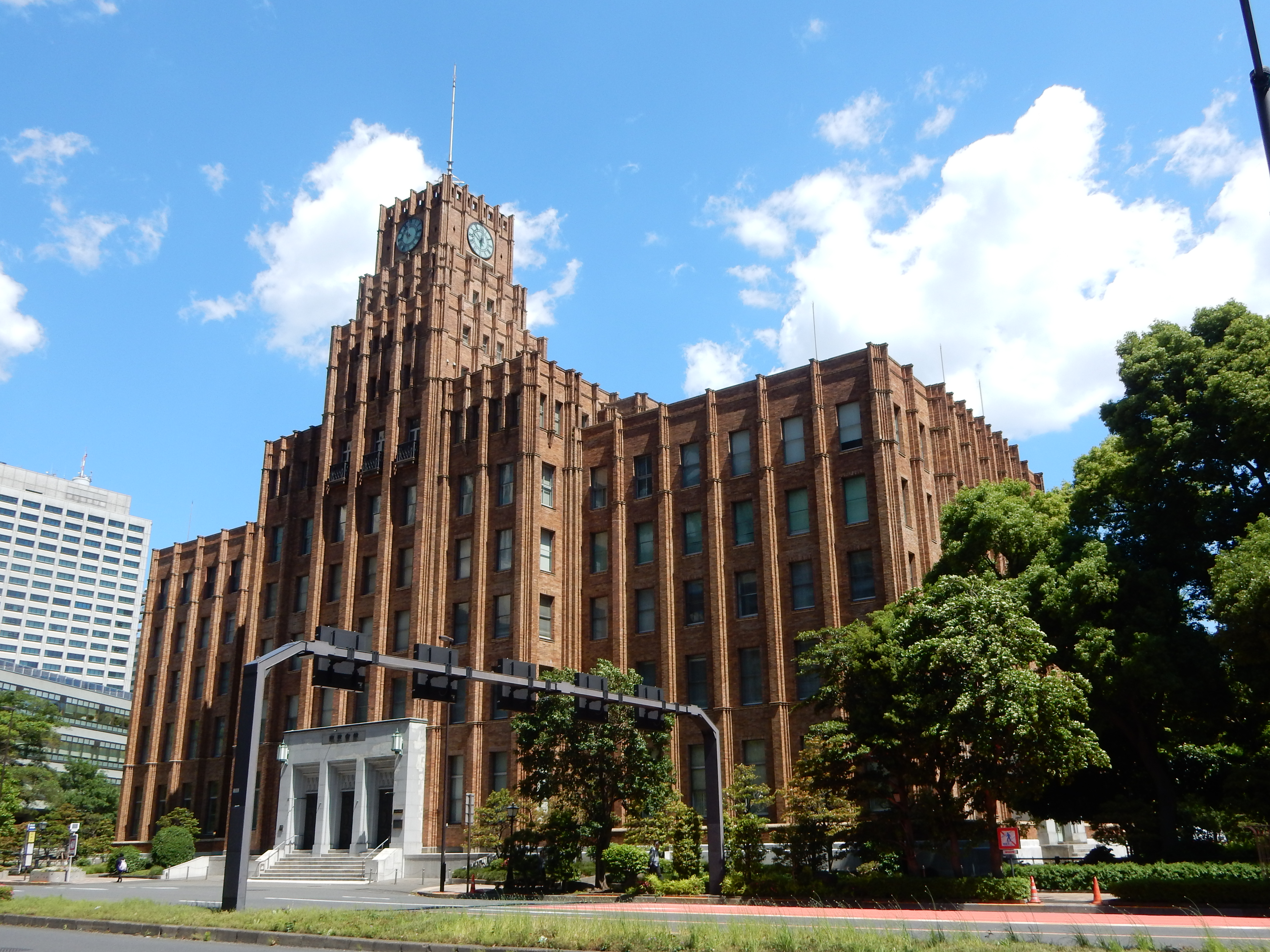 Municipal Research Building (市政会館), located at 1-3 Hibiya Kōen, Chiyoda, Tokyo, Japan